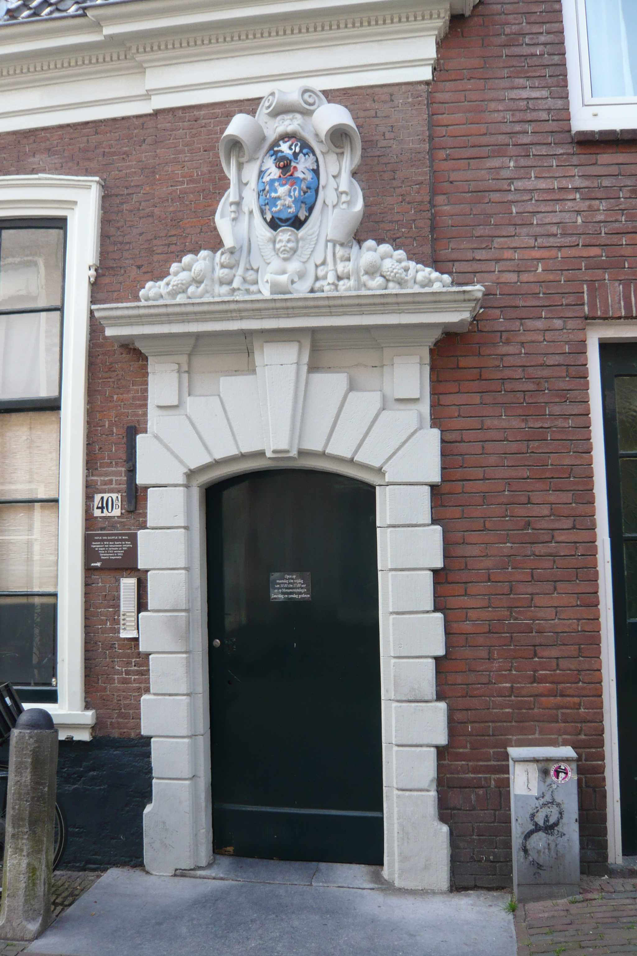 Gate of Hofje van Guurtje de Waal, Lange Annastraat 40, Haarlem.